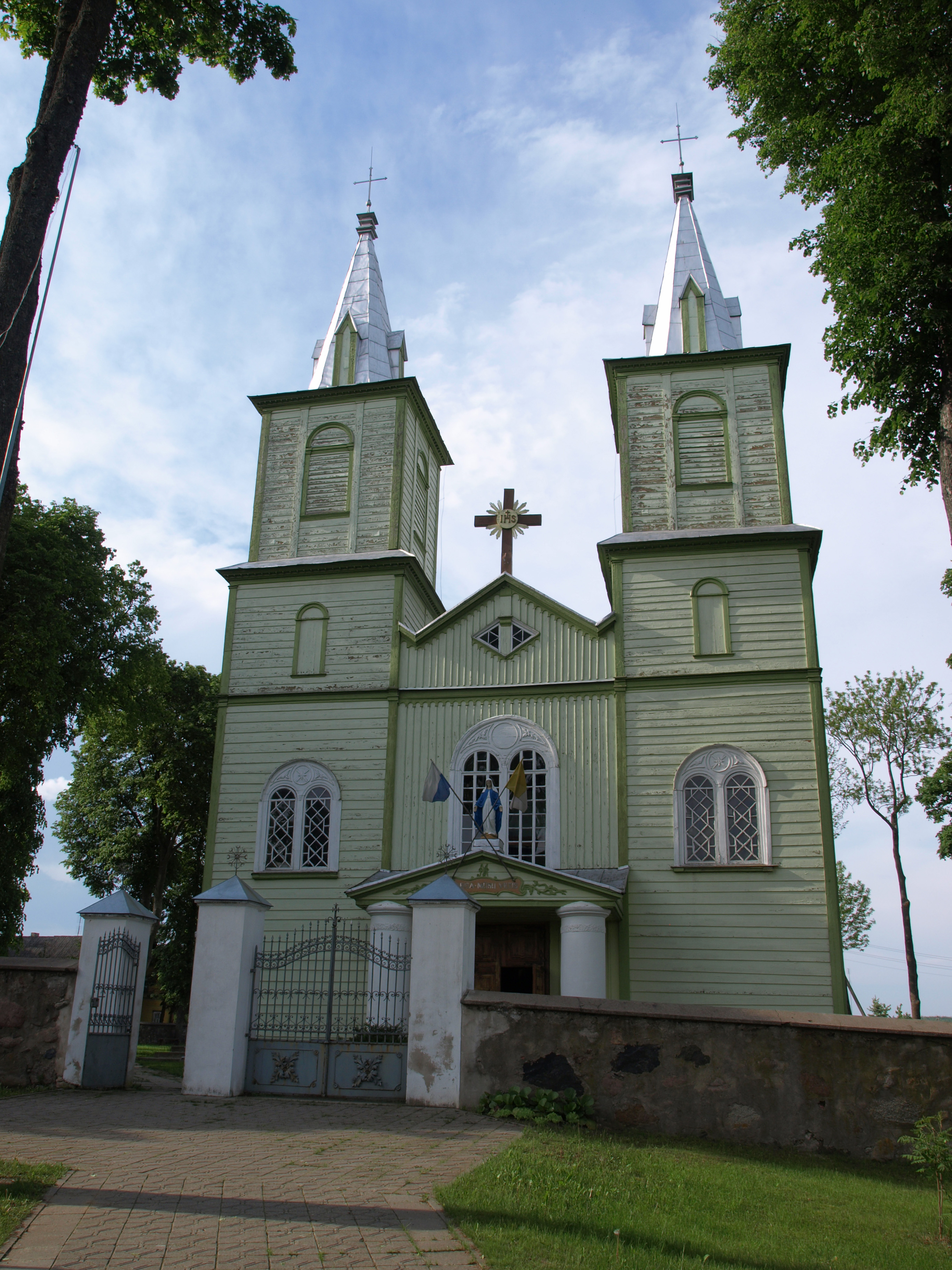 Balbieriskis church, Prienai district, Lithuania